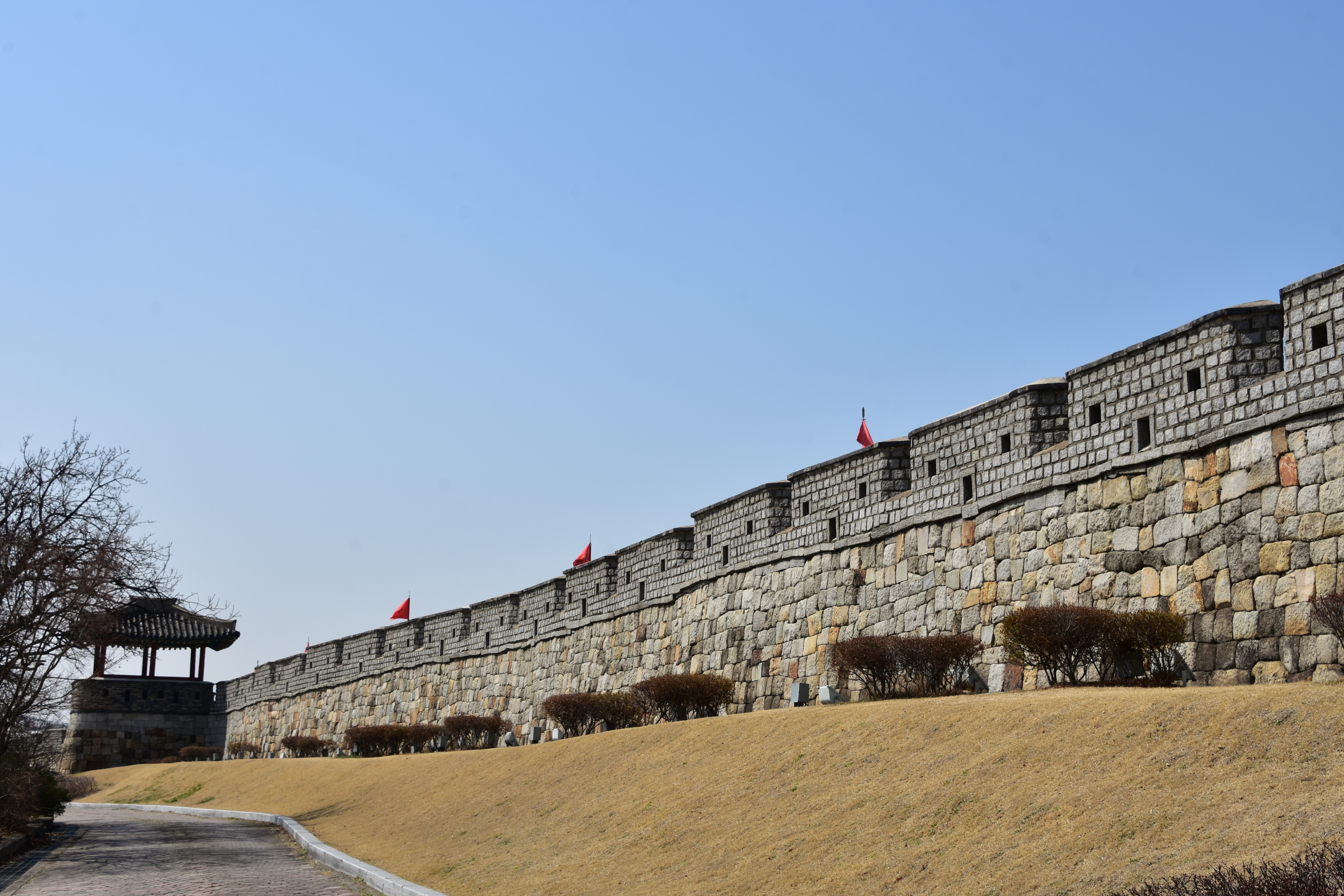 Fortifications of Suwon, late 18th century (12)